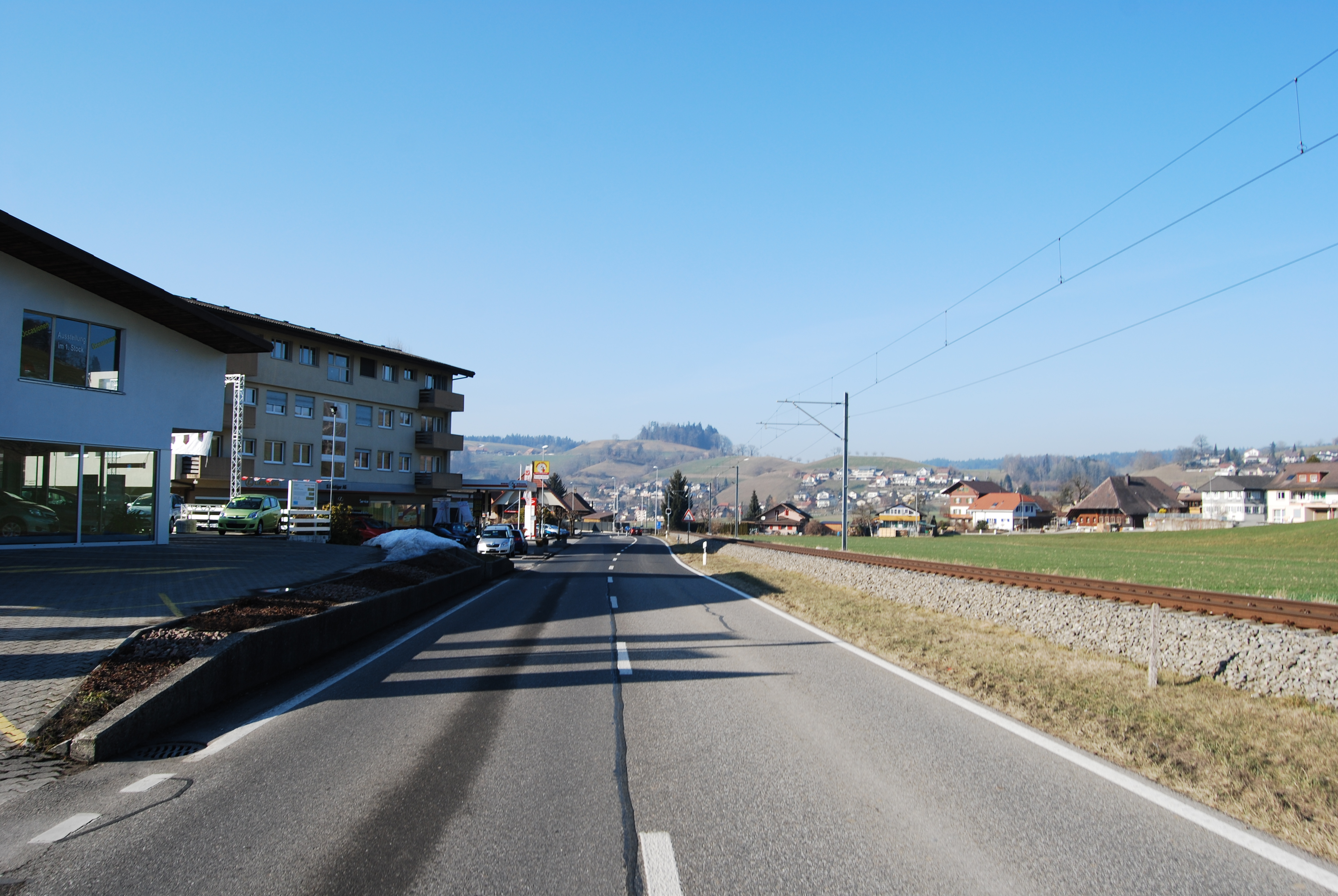 Rohrbach, canton of Bern, SwitzerlandEsperanto: Rohrbach, Kantono Berno, Svislando